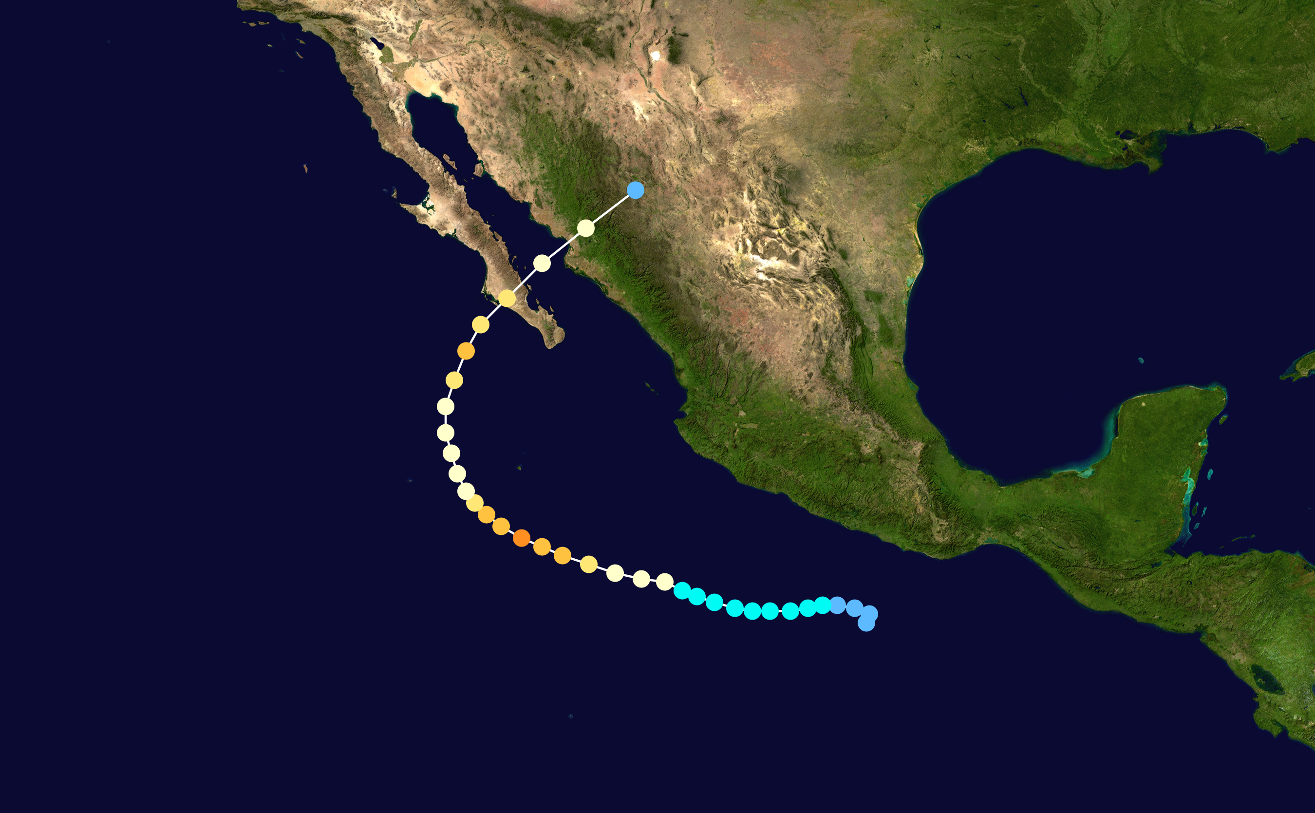 Track map of Hurricane Norbert of the 2008 Pacific hurricane season. The points show the location of the storm at 6-hour intervals. The colour represents the storm's maximum sustained wind speeds as classified in the Saffir–Simpson scale (see below), and the shape of the data points represent the nature of the storm, according to the legend below. Saffir–Simpson scale Tropical depression≤38 mph≤62 km/h Category 3111–129 mph178–208 km/h Tropical storm39–73 mph63–118 km/h Category 4130–156 mph209–251 km/h Category 174–95 mph119–153 km/h Category 5≥157 mph≥252 km/h Category 296–110 mph154–177 km/h Unknown Storm type Tropical cyclone Subtropical cyclone Extratropical cyclone / Remnant low / Tropical disturbance / Monsoon depression